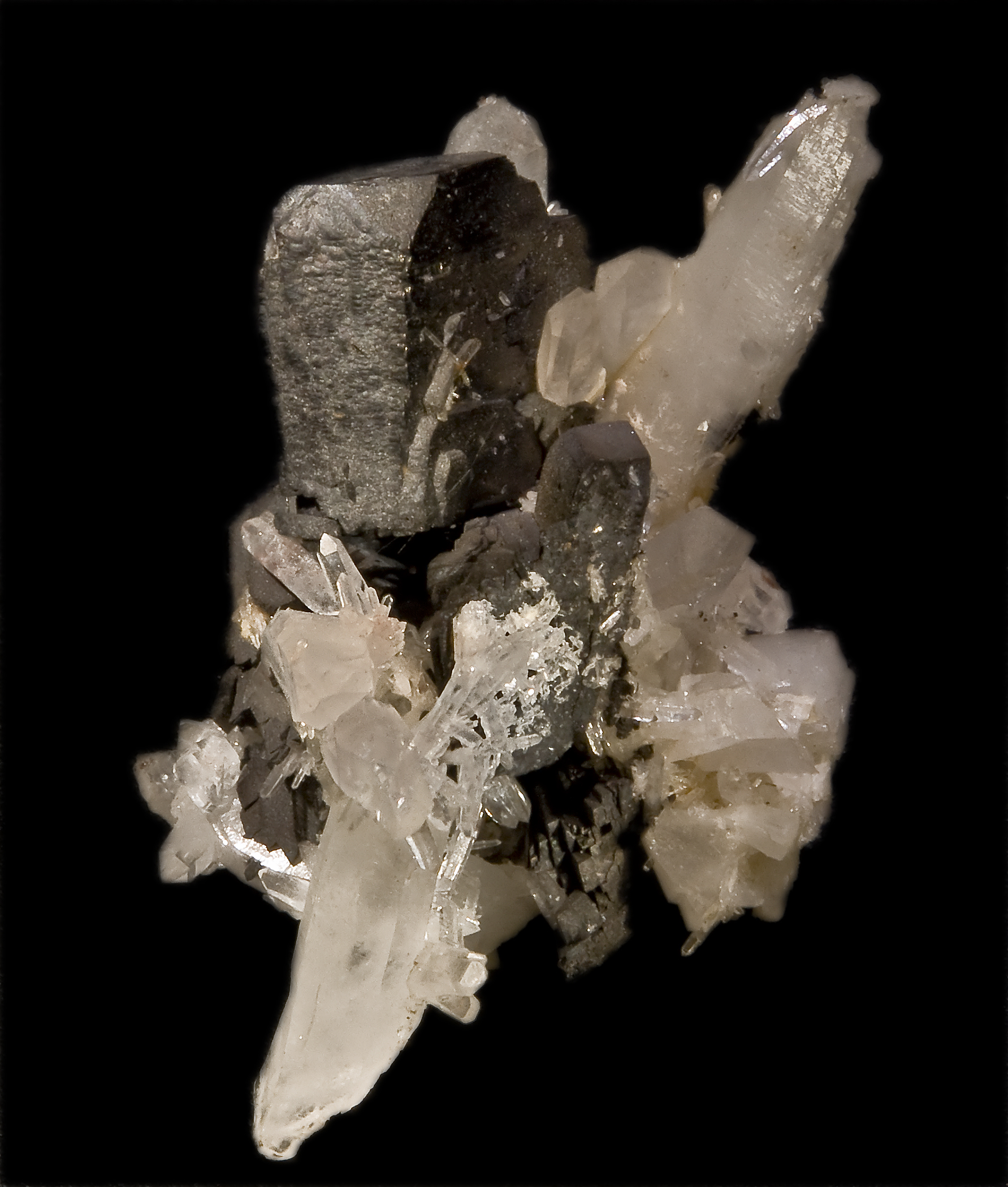 Hübnerite with quartz - Huayllapon Mine, Pasto Bueno District, Pallasca Province, Ancash Department, Peru (5.1x2.9cm)